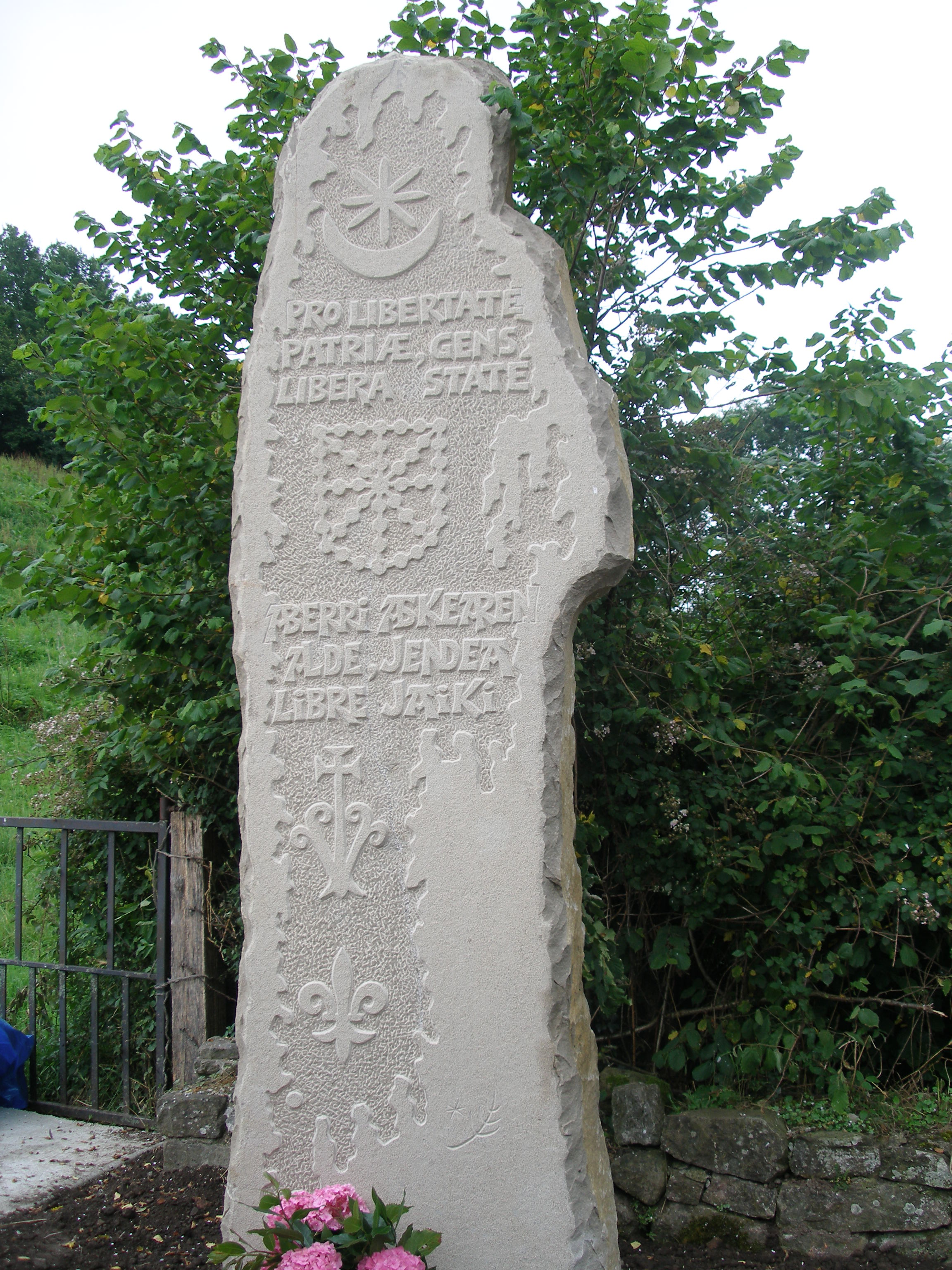 Monolith in defense of the liberties of the Navarrese people, Amaiur, Navarre